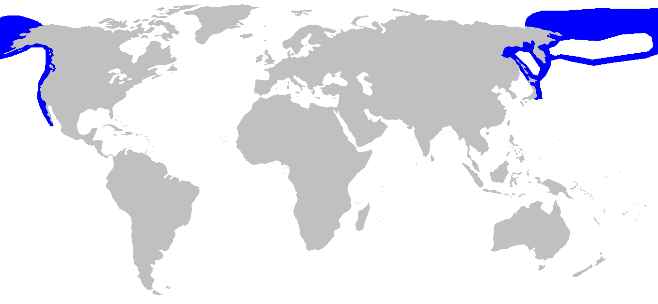 Distribution map for Somniosus pacificus